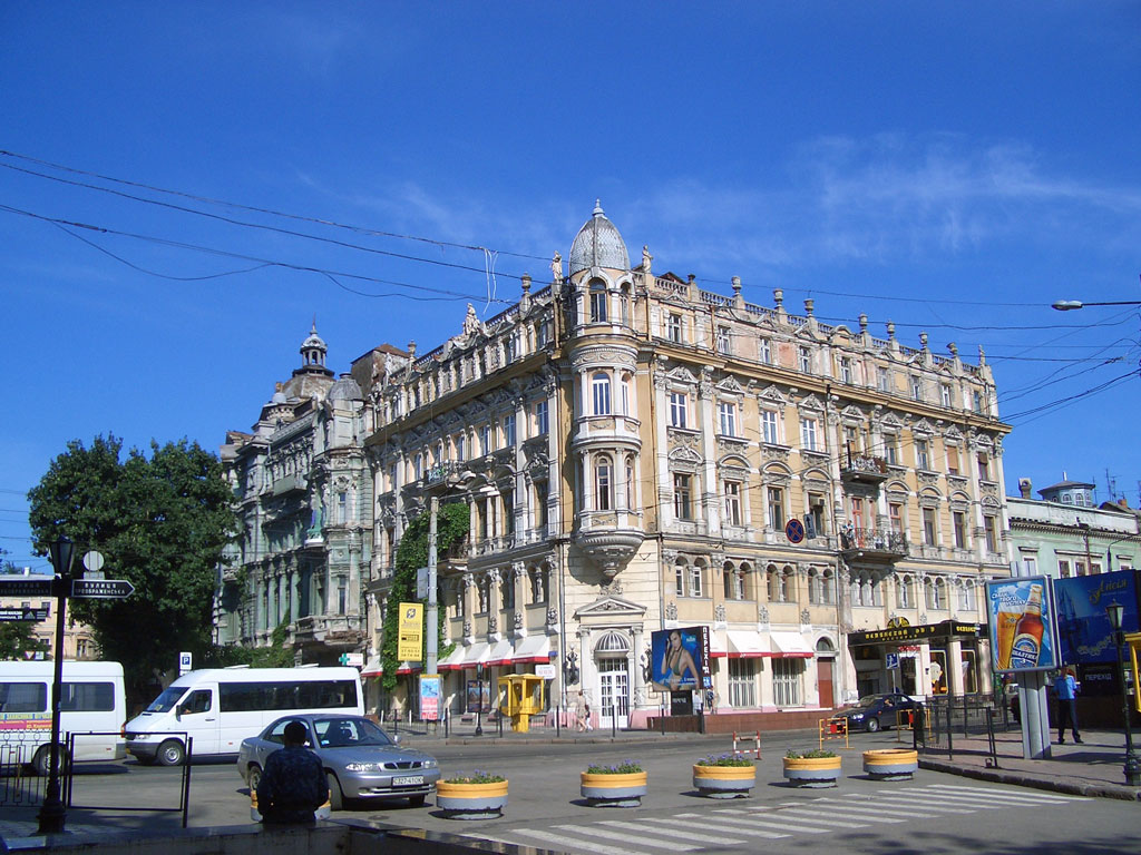 Residential building with the former Café Liebmann, opposite to the Hotel Passage, in Odessa, Ukraine